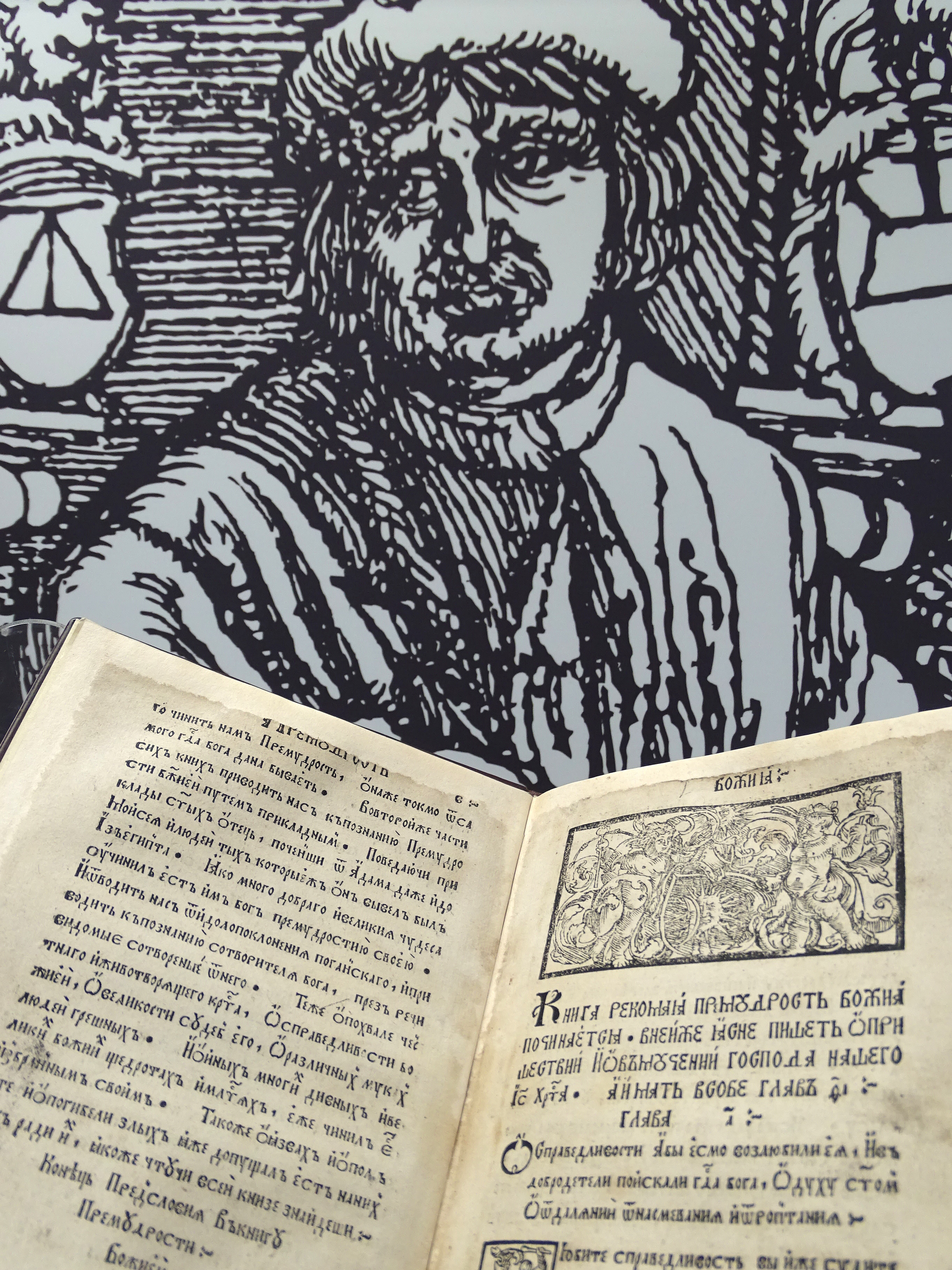 1518 Printed Volume of Bible by Francisk Skoryna - With Portrait of the Printer - Book Museum - National Library - Minsk - Belarus